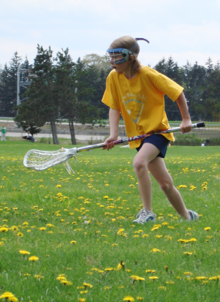 Girl practising Lacrosse